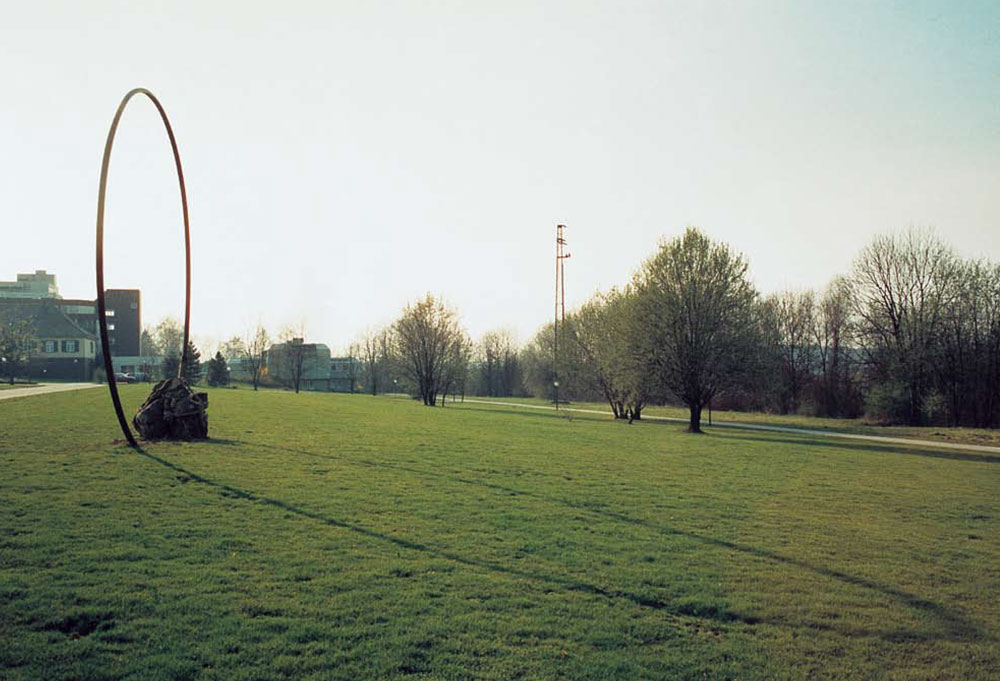 The art installation O, the voice in art at Bad Rappenau, Germany by Milton Becerra.